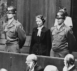 Herta Oberheuser is sentenced to twenty years' imprisonment on August 20, 1947 at the Doctors' Trial in Nuremberg.